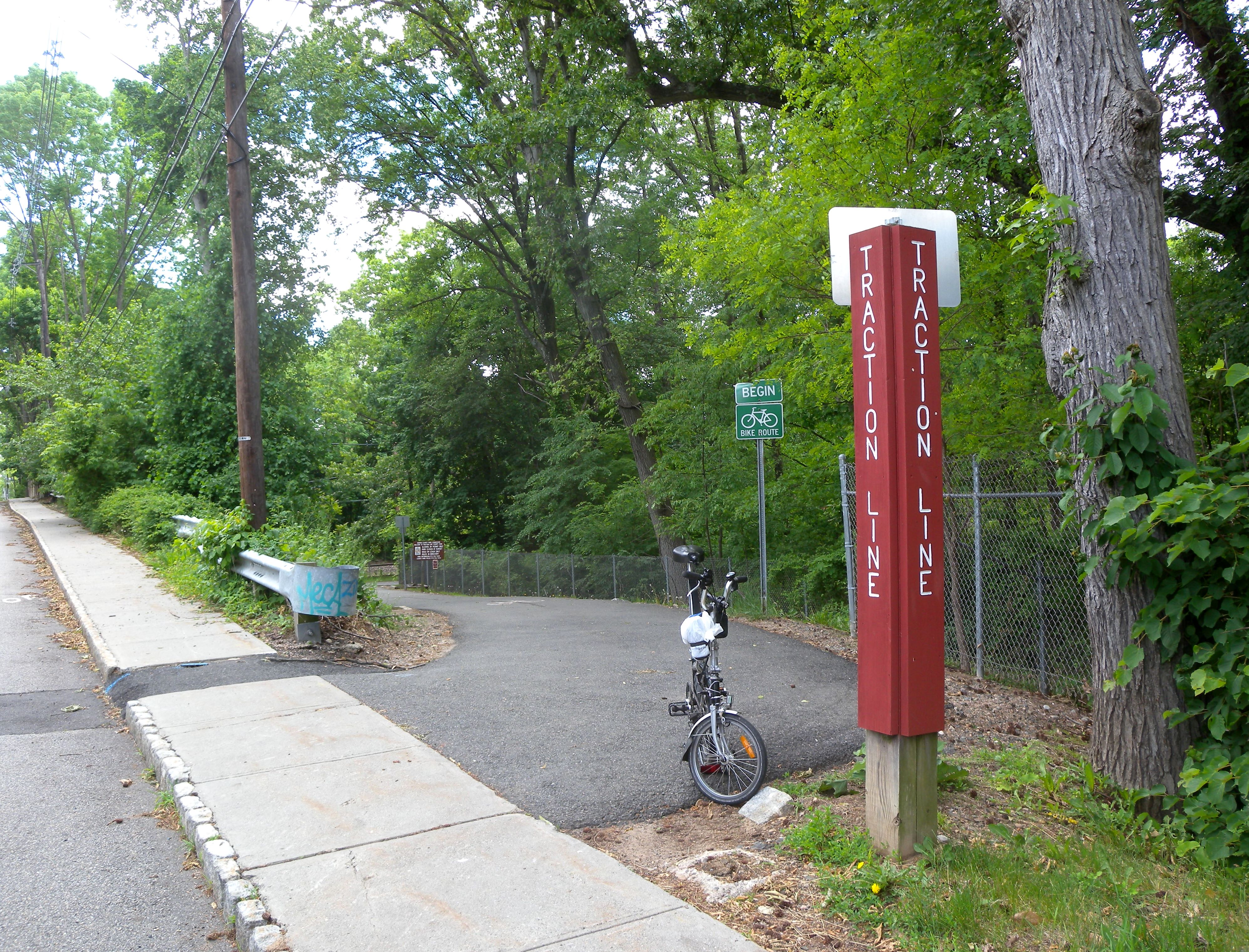 Looking west at south end of Traction Trail from Danforth and Beach Avenue on a sunny early afternoon.